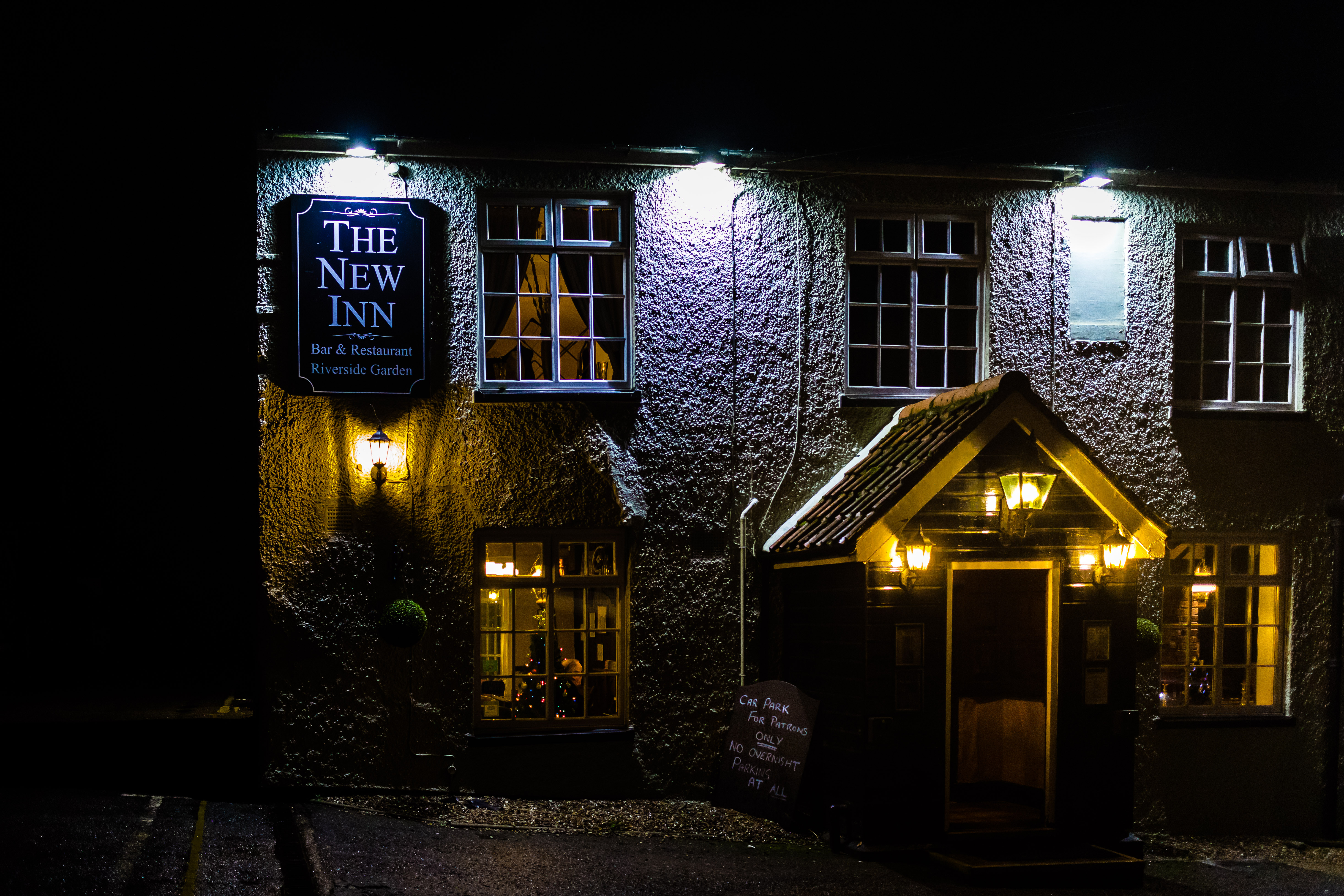 The New Inn, Horning